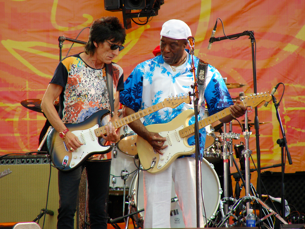 Ron Wood (left) and Buddy Guy play at the Crossroads Guitar Festival on June 26, 2010. Ron Wood wears a shirt from his fashion range for the brand Liberty of London (motif: "I feel like painting"), which was garbled because of copyright reasons by user:Miss-Sophie.